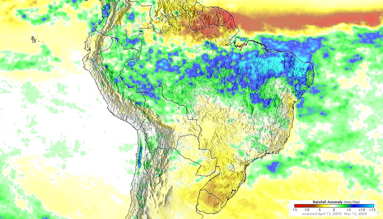 rainfall anomaly brazil april-may 2009